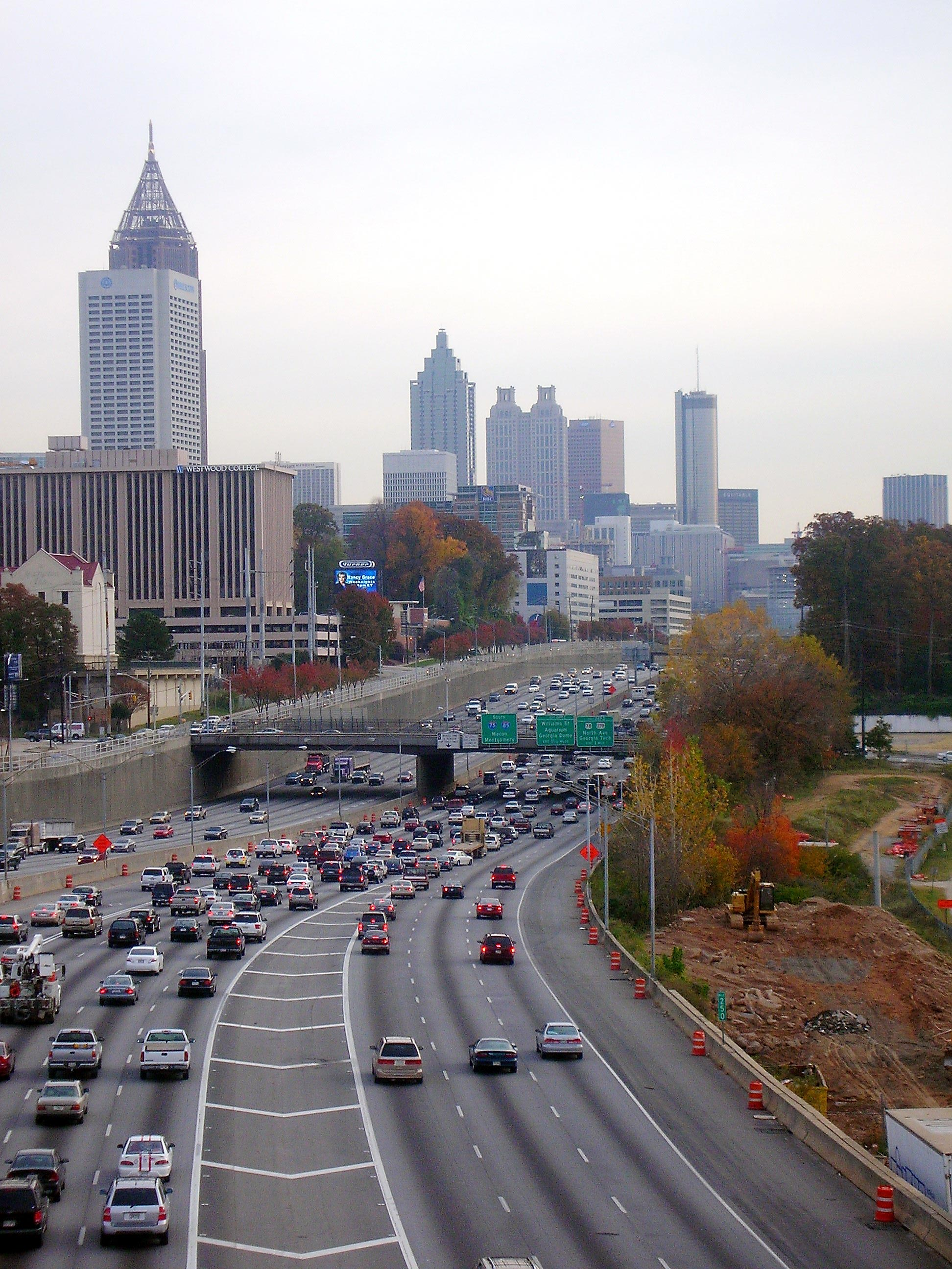 Category:Images of Atlanta, Georgia